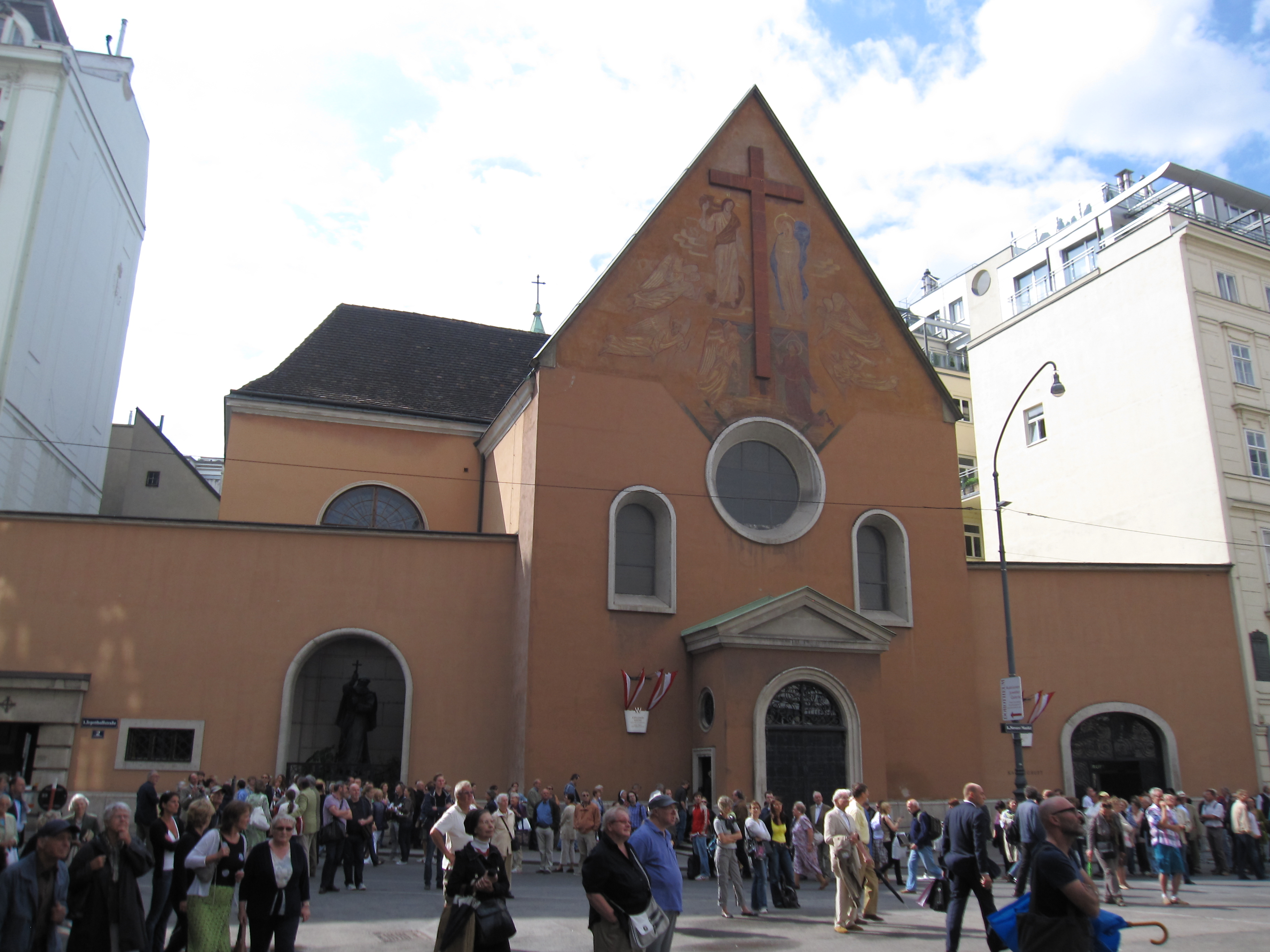 People waiting in line for the lying in repose of Otto von Habsburg, heir to the Austrian and Hungarian thrones, and his wife Princess Regina of Saxe-Meiningen, at the Capuchin Church in Vienna on Friday, 15 July 2011.